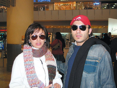 Angham with Fahad at Kuweit airport in 2005.